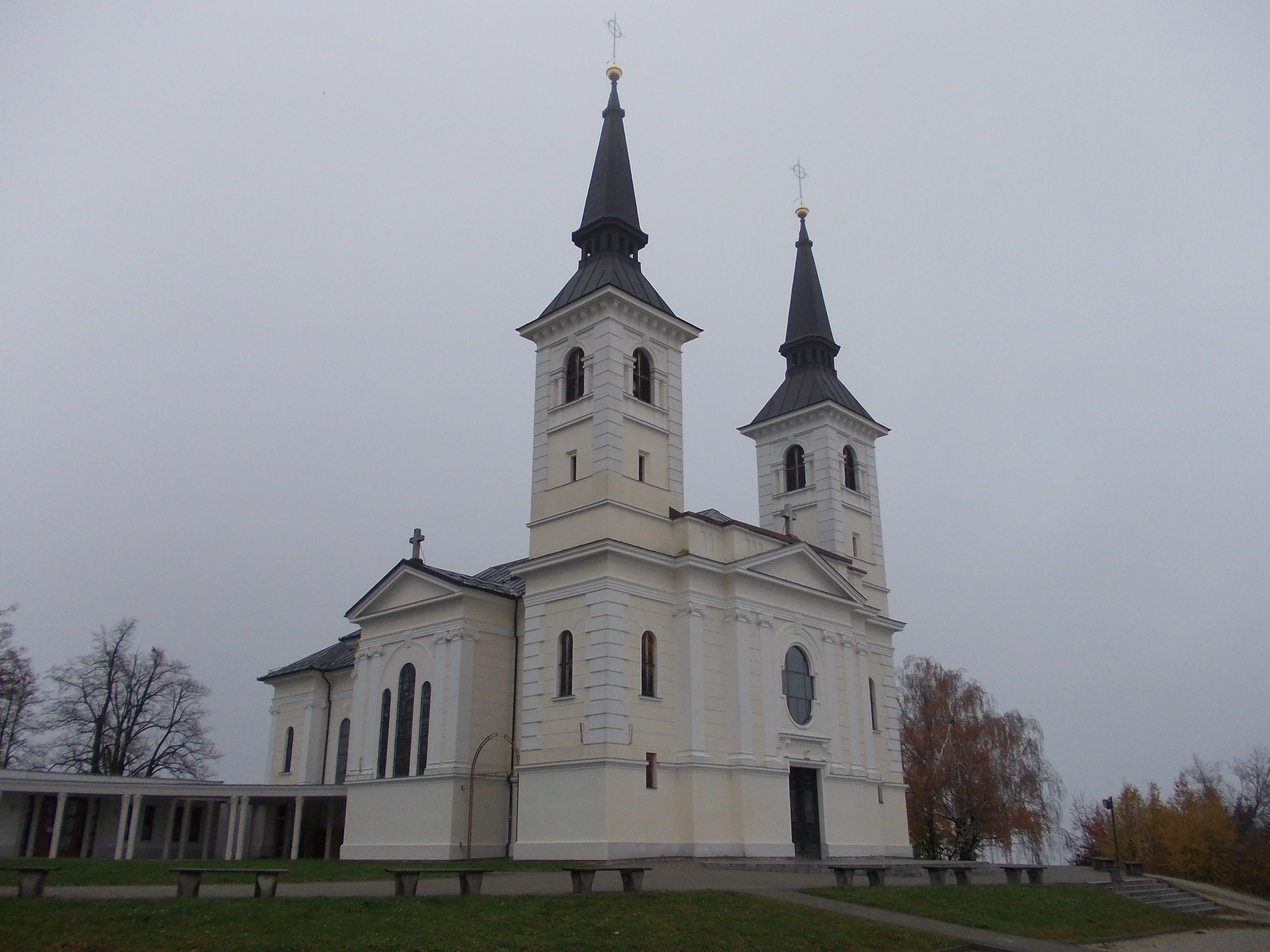 Assumption of Mary Church (Čatež)